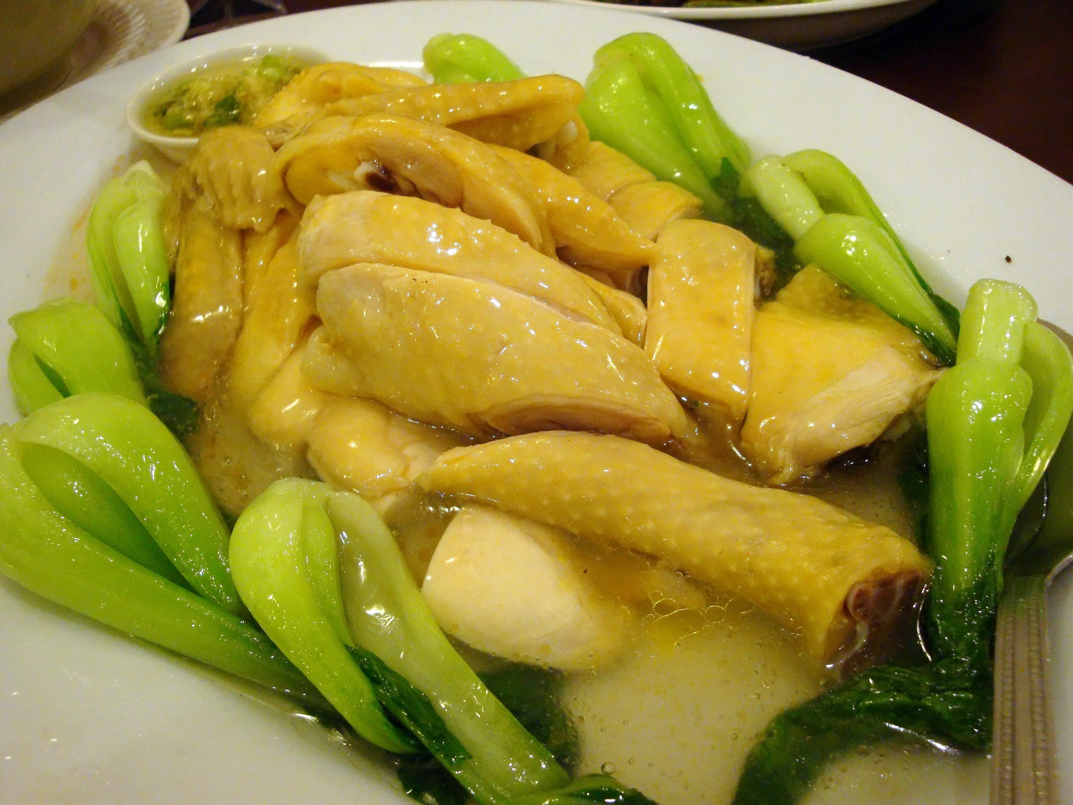 白切雞 also know as "white cut chicken". Served with Shanghai bok choy and brothg